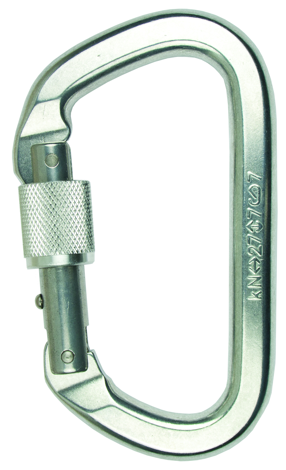 SMC 18501 Screw Gate Carabiner